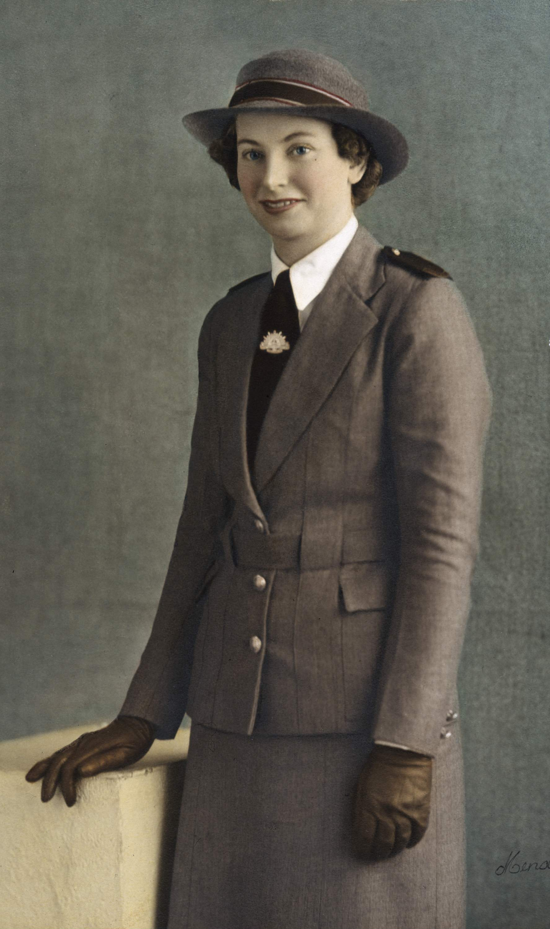 Studio portrait of Staff Nurse Vivian Bullwinkel, Australian Army Nursing Service (AANS), in service dress uniform. Bullwinkel is well known as the sole survivor of the infamous Banka Island massacre in which 21 of her AANS colleagues were killed by Japanese troops. Bullwinkel was born on 18 December 1915 at Kapunda, SA, and enlisted in the AANS in 1941. In September 1941 she embarked for Singapore as a staff nurse with the 2/13th Australian General Hospital (2/13th AGH). On 12 February 1942, three days before the fall of Singapore, Bullwinkel, along with 65 other Australian Army nursing sisters, was evacuated from Singapore on board the SS Vyner Brooke. On the 14 February, while on route to Sumatra via Banka Strait, the ship was sunk by Japanese aircraft. Twenty-two nurses, including Bullwinkel, and a large group of British soldiers, men, women, and children made it ashore at Radji Beach on Banka Island. The group decided to surrender and a group comprising of the civilian women and children, accompanied by some of the men, went to find Japanese troops while the rest of the group waited. When Japanese soldiers arrived, the men were executed and the 22 sisters were ordered to walk into the sea and were machine gunned from behind. Bullwinkel, struck by a bullet, pretended to be dead. She and the only other survivor of the massacre, a wounded British soldier, Private (Pte) Kinsley, hid for 12 days before surrendering. Both were taken into captivity, but Pte Kinsley died soon after. Bullwinkel spent three and half years in captivity and was one of just 24 of the 65 nurses who had been on the SS Vyner Brooke to survive the war. Her courage while a prisoner of the Japanese exemplified the bravery of Australian women in war, and her distinguished post-war career was marked by many humanitarian and career achievements. Vivian Statham (nee Bullwinkel) died on 3 July 2000.